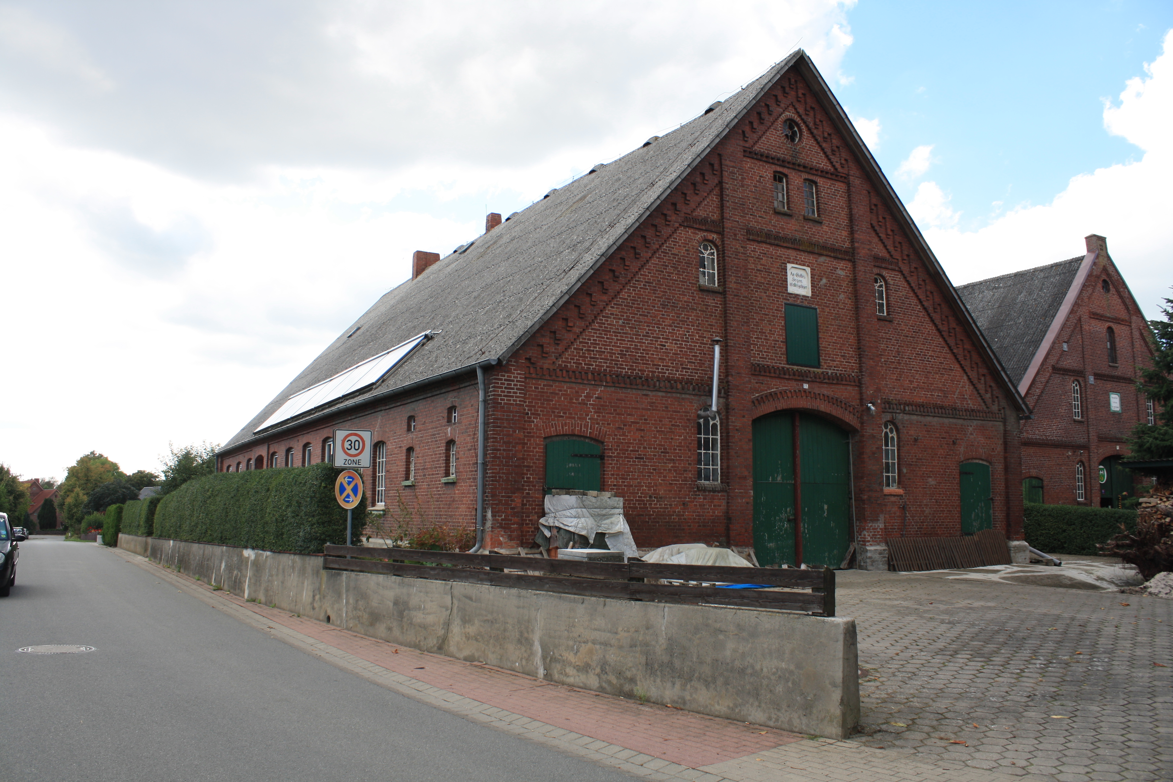 Historic farmhouse in Lower Saxony This is a photograph of an architectural monument.It is on the list of cultural monuments of Drage